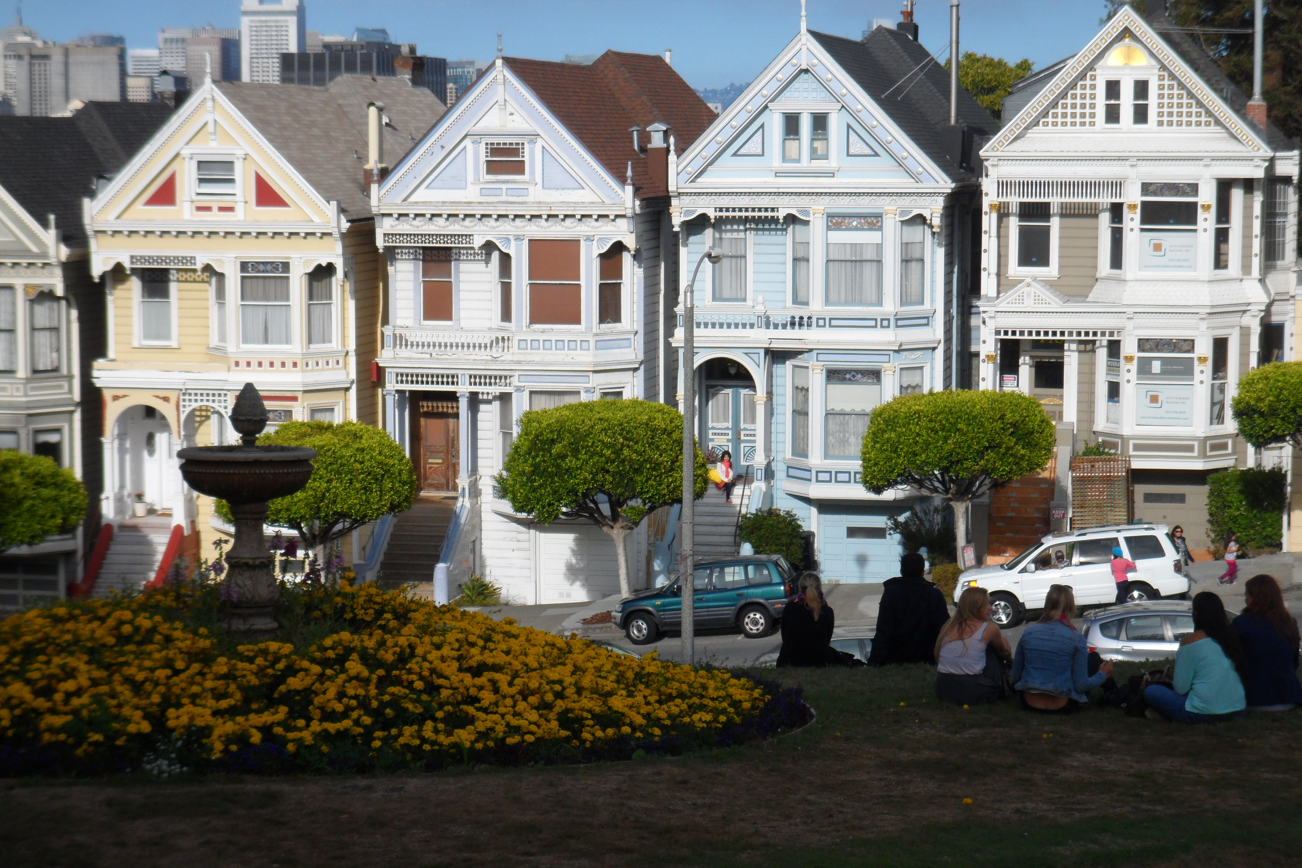 The Famous Painted ladies of San Francisco